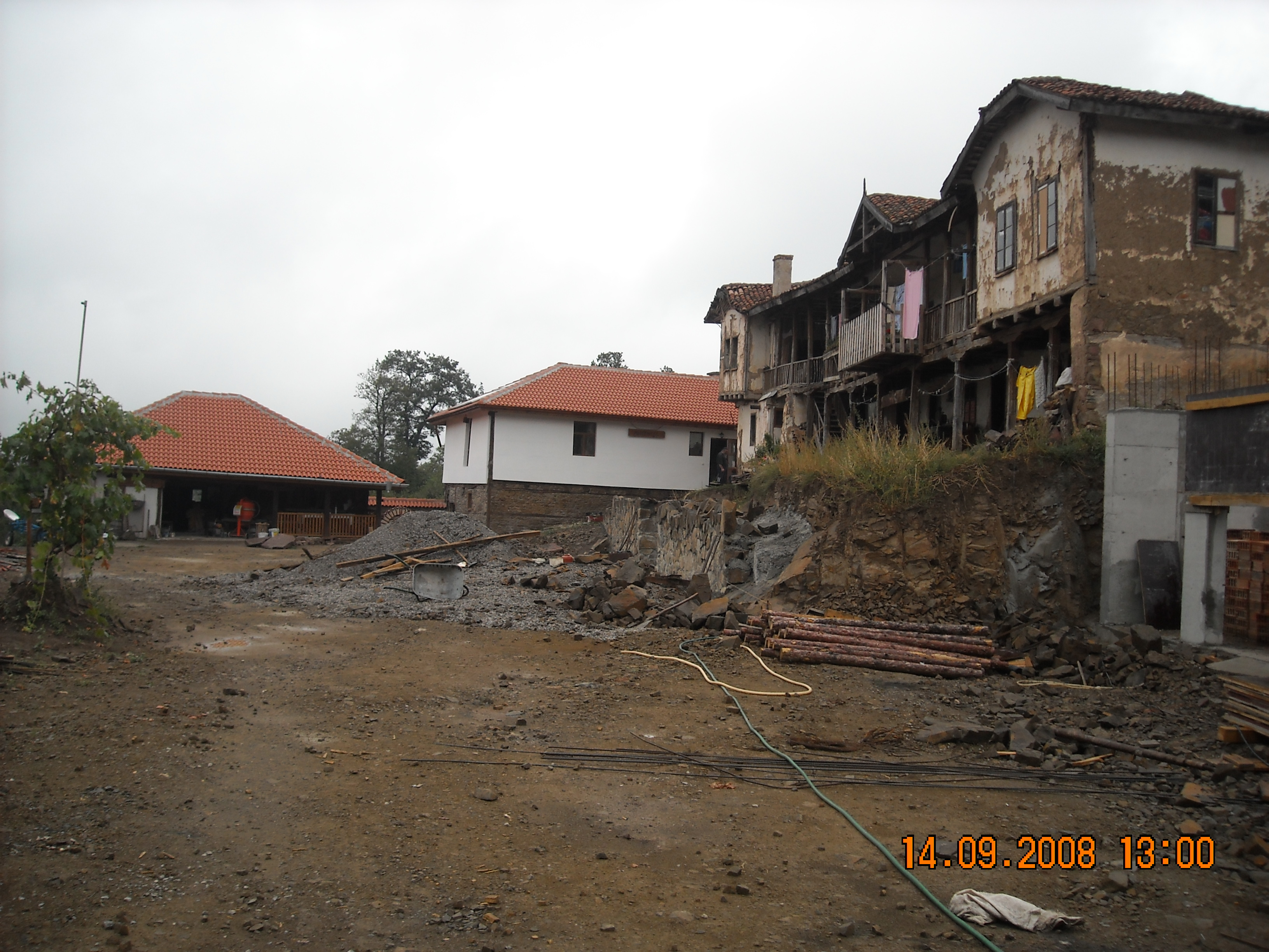 The old part of the Gigintsi Monastery